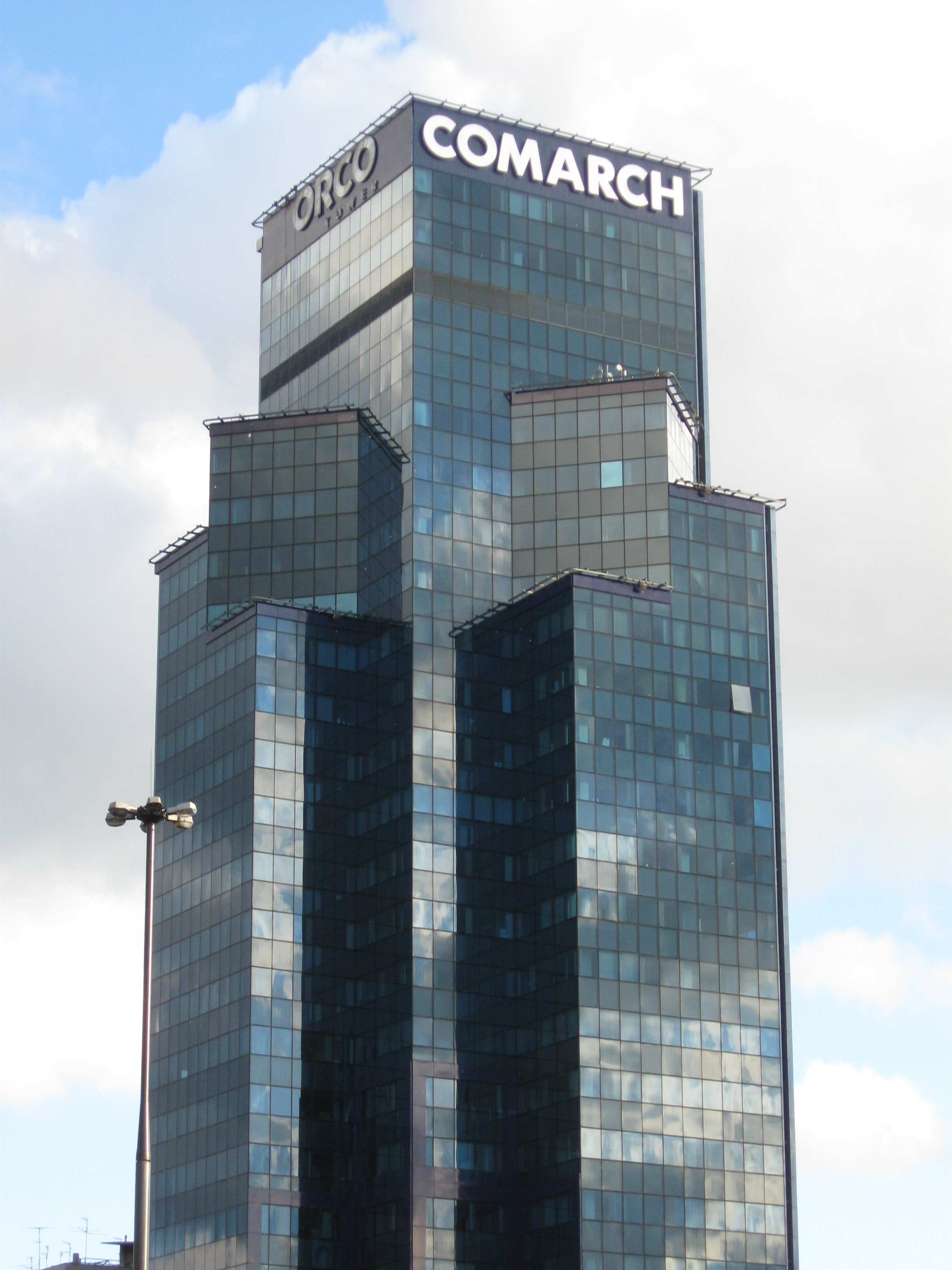 ORCO Tower in Warsaw, Poland